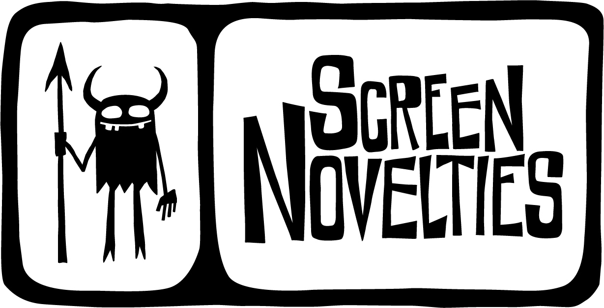 Logo for Screen Novelties. Illustration